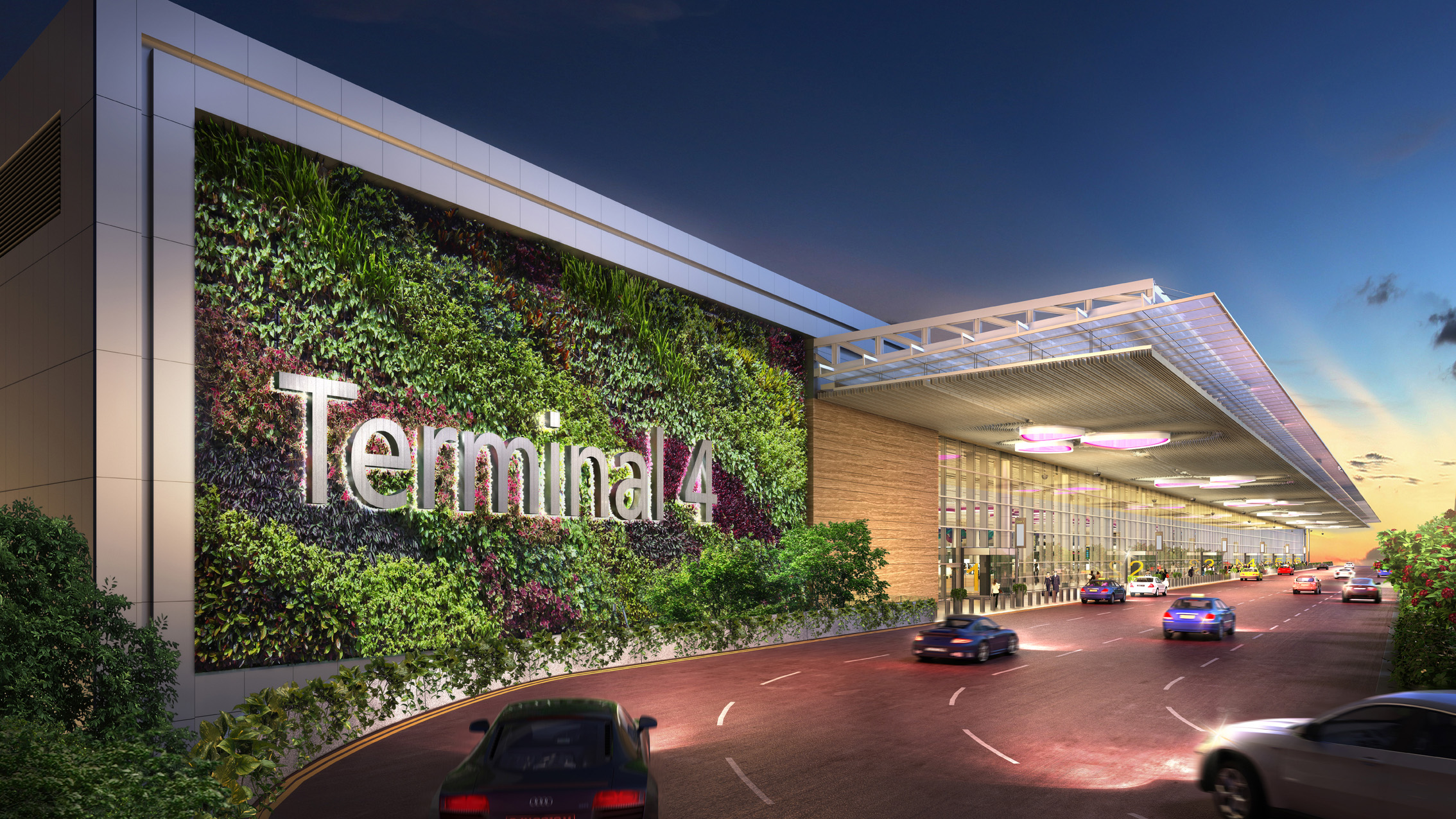 Artists impression of the driveway to Terminal 4 departure kerbside at Changi Airport